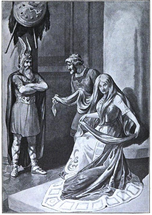 Captioned as The Gold Hair that Loki Made. Loki presents to Thor the newly-made gold-spun hair of Thor's wife, the goddess Sif.